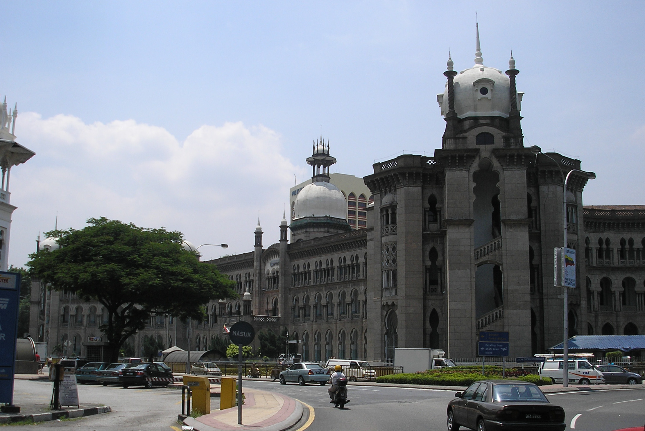 The Railway Administration Building for Malayan Railway (Keretapi Tanah Melayu), as seen towards the southwest, along Jalan Sultan Hishamuddin (previously part of Damansara Road), in central Kuala Lumpur, Malaysia. The building is directly located opposite the old Kuala Lumpur railway station.